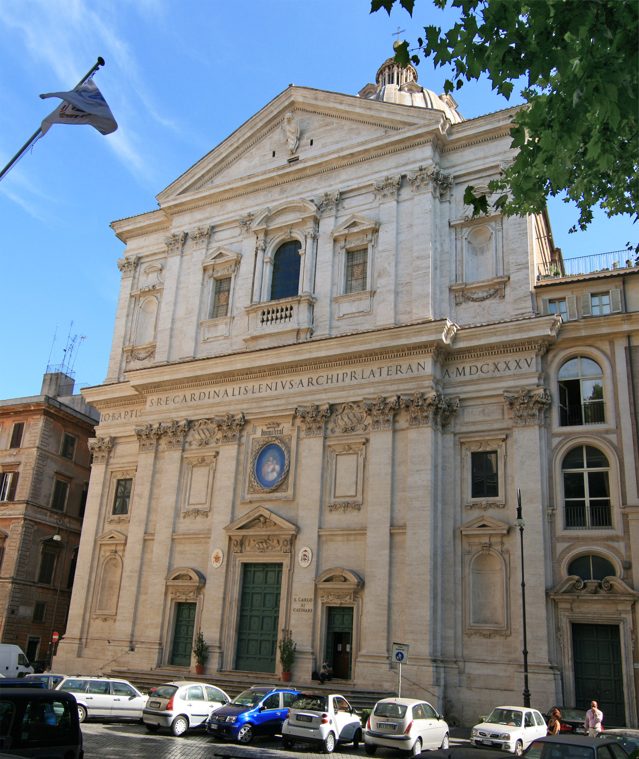 Church of San Carlo ai Catinari, Rome.